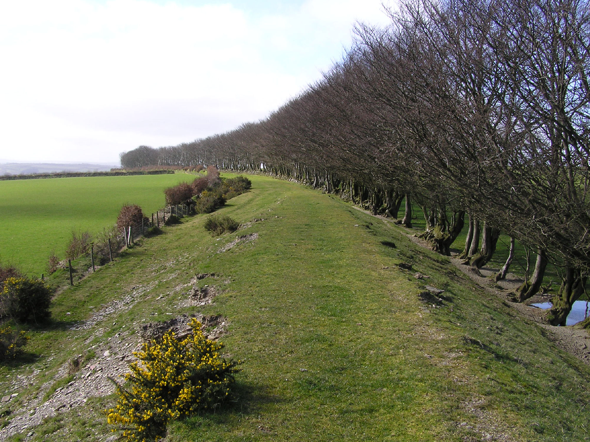 West Somerset Mineral Railway alignment near Gupworthy, UK